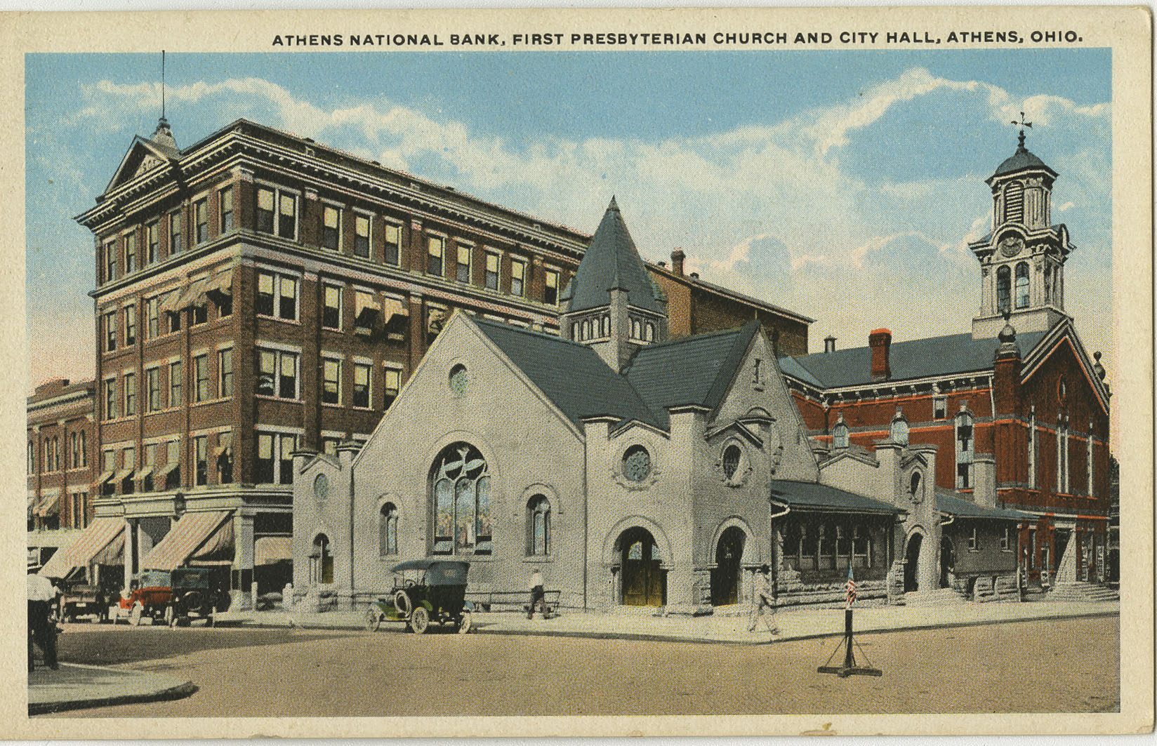 First Presbyterian Church in Athens, Ohio from a pre-1923 postcard From RG 428, Postcard Collection, Presbyterian Historical Society, Philadelphia, Pennsylvania.